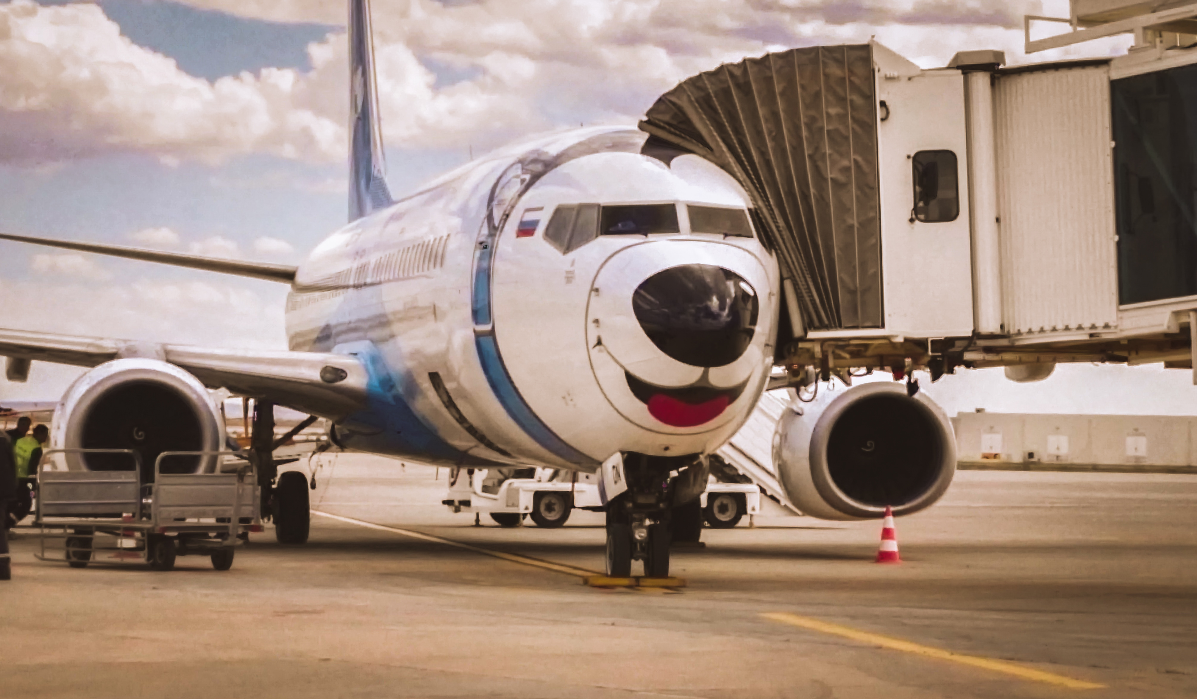 VQ-BDN NordStar Airlines Boeing 737-800, MSN 32905 at Enfidha Hammamet Airport